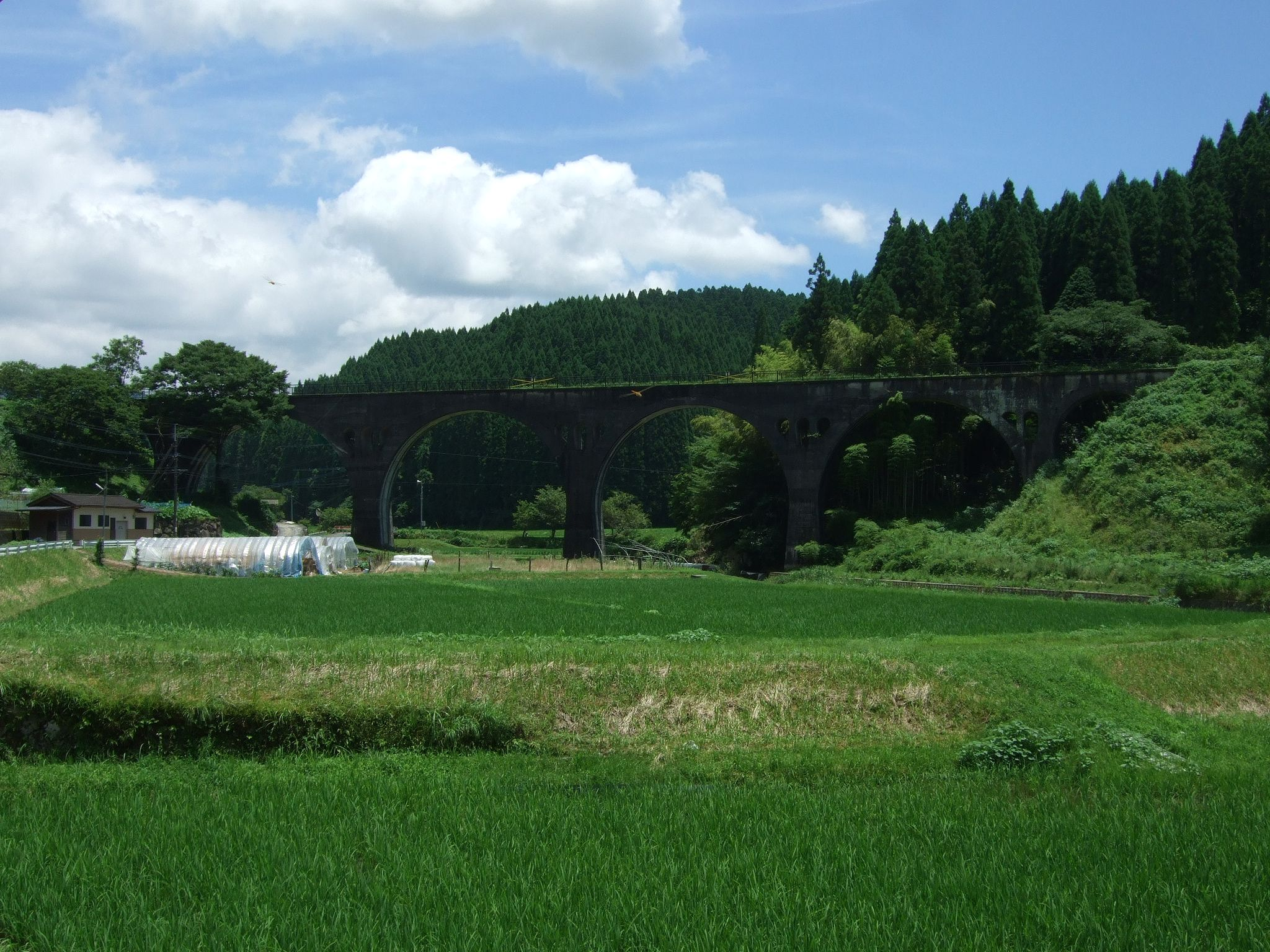 The ruin of former Miyanoharu Line Konogawa Bridge, between Kitazato Station and Miyanoharu Station, Oguni Town, Kumamoto, Japan.